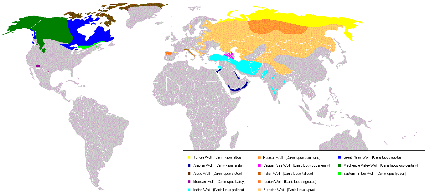 Canis lupus distribution, English.